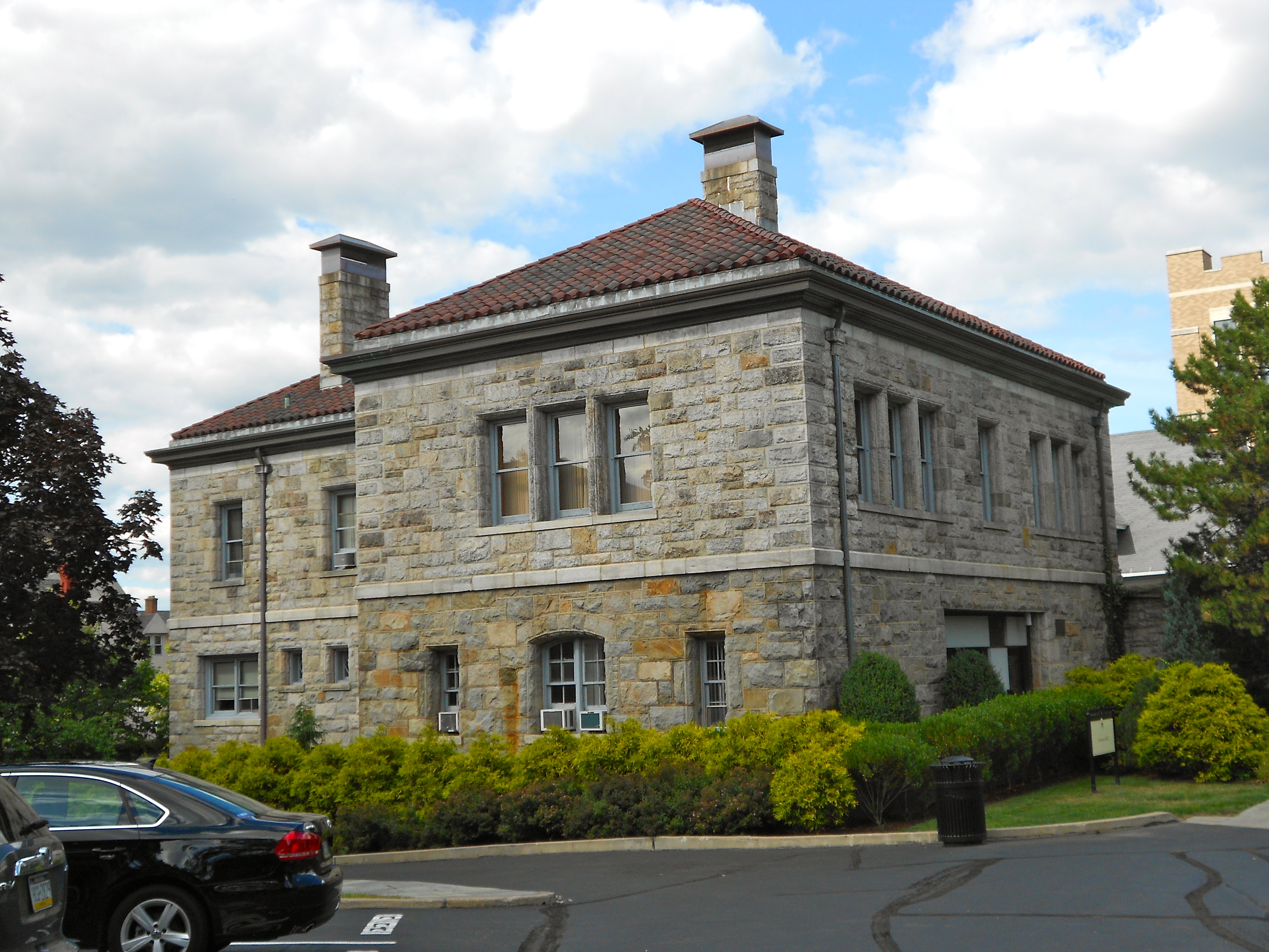 Building in Scranton, Lackawanna County, Pennsylvania. Old building at Scranton University, perhaps the first.